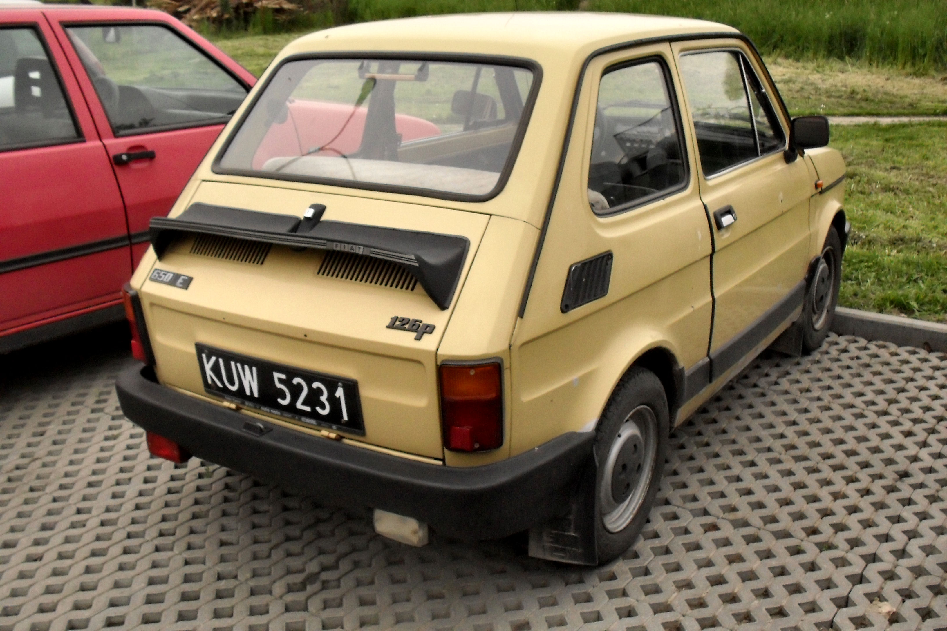 Fiat 126p FL 650E seen in Jasło, Poland.